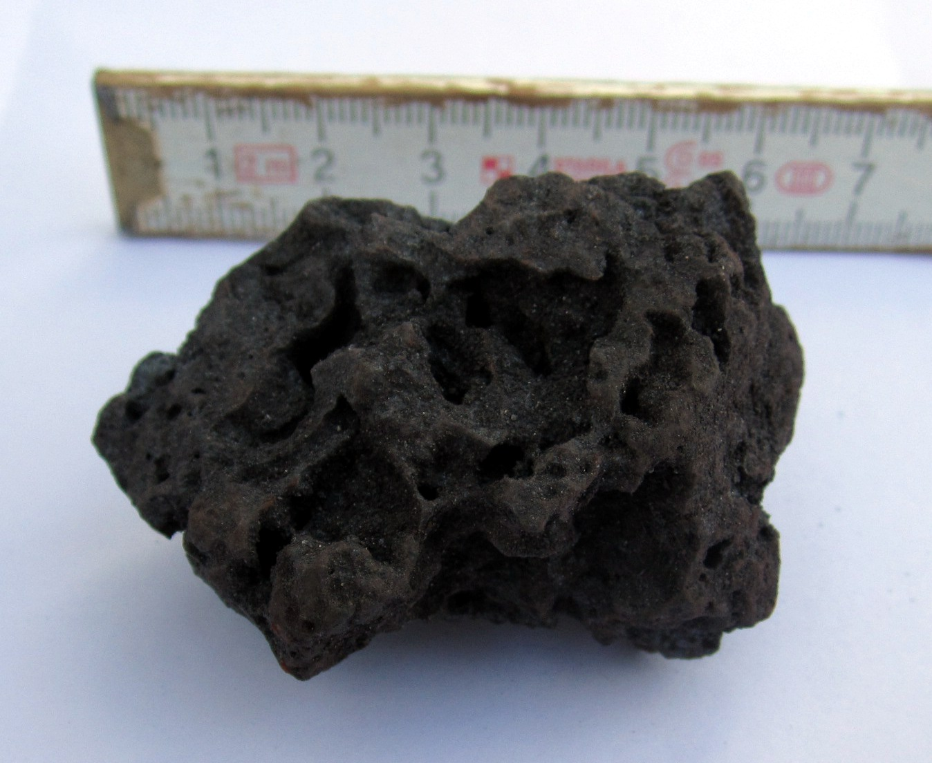 Sintered Iron Ore out of the Dwight-Lloyd-Sinter Machine at HKM, Duisburg, Germany.